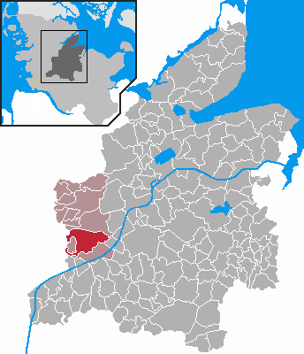 Locator maps of municipalities in Schleswig-Holstein - District Rendsburg-Eckernförde